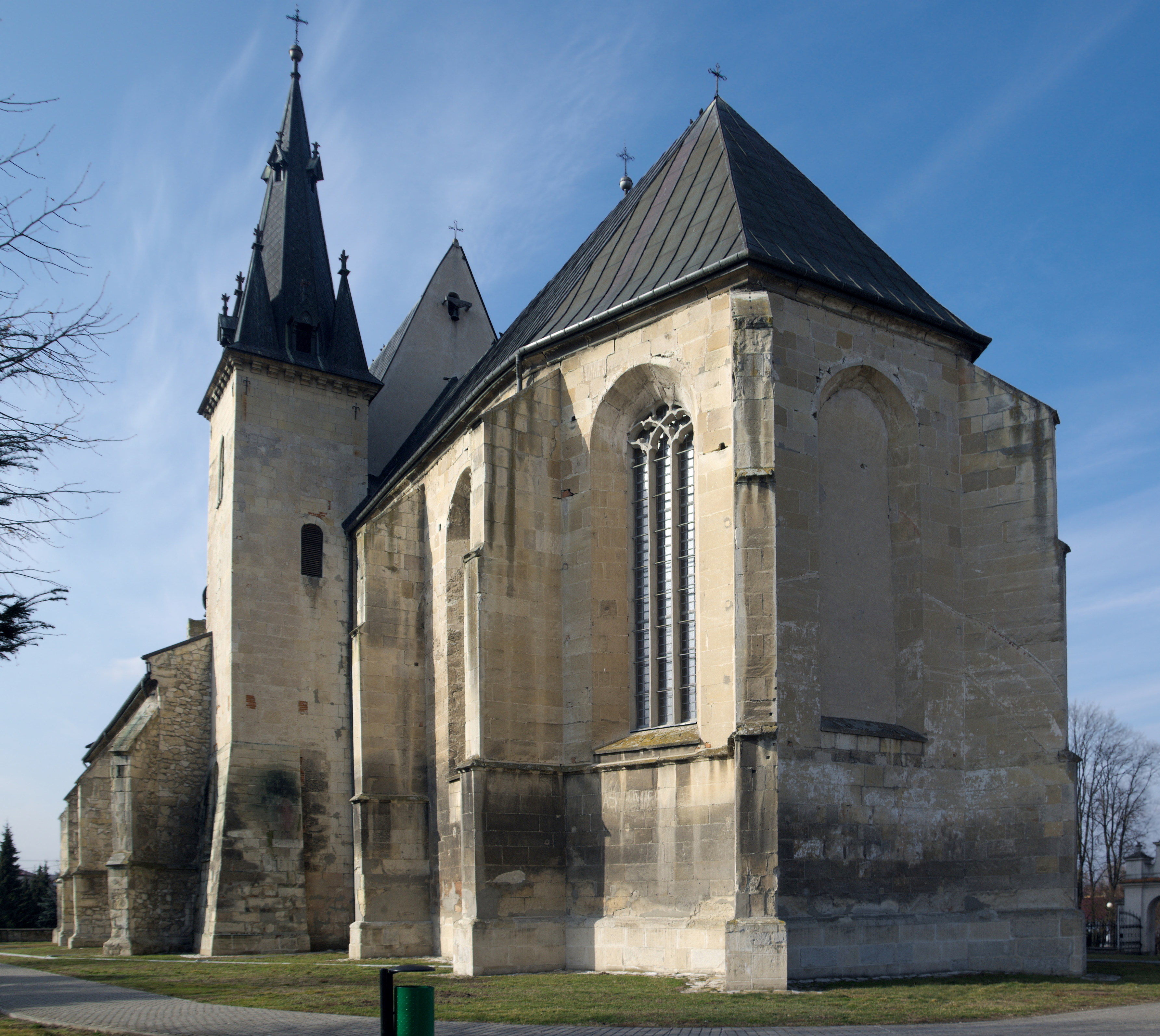 Church of Saint John the Baptist in Skalbmierz